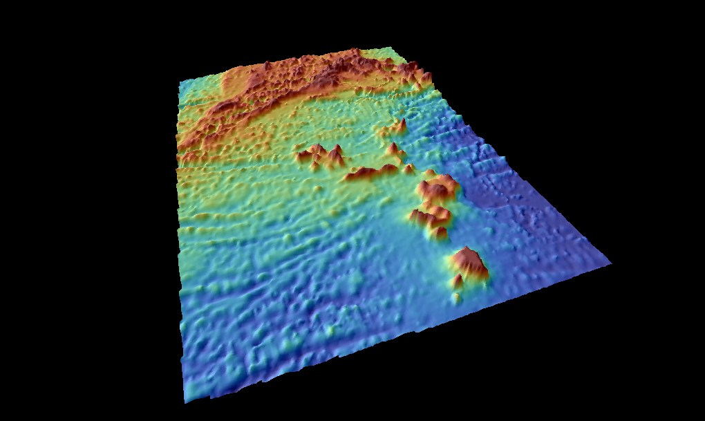 The Atlantis-Meteor Seamount Complex south of the Azores Triple Junction. Made by means of SAGA GIS from etopo1 bathymetry. Left=35W, right=25W, front=29N, back=40N, width=975km, back-front=1250km.